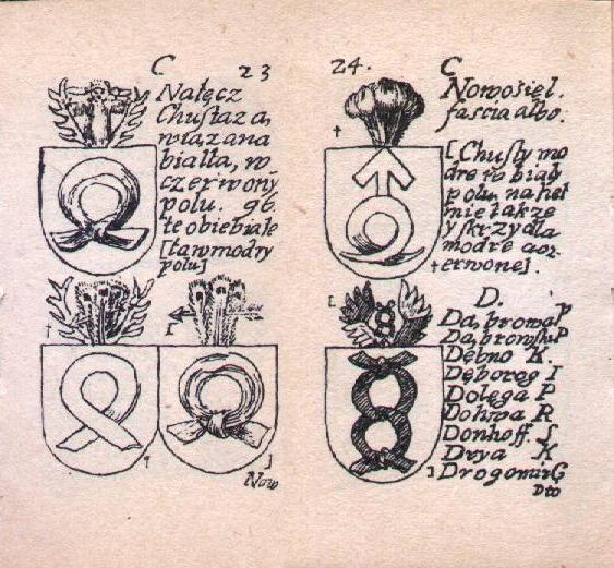 Coat of arms Nałęcz from Herby polskie... by Antoni Swach